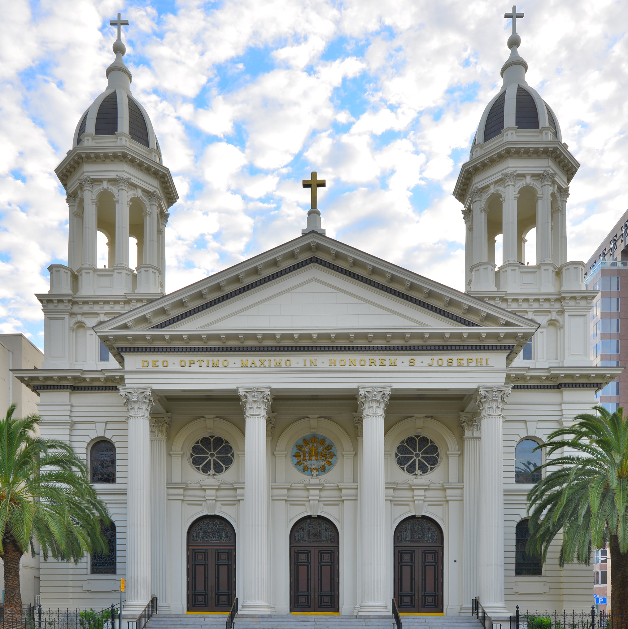 Cathedral Basilica of St. Joseph (San Jose, California)